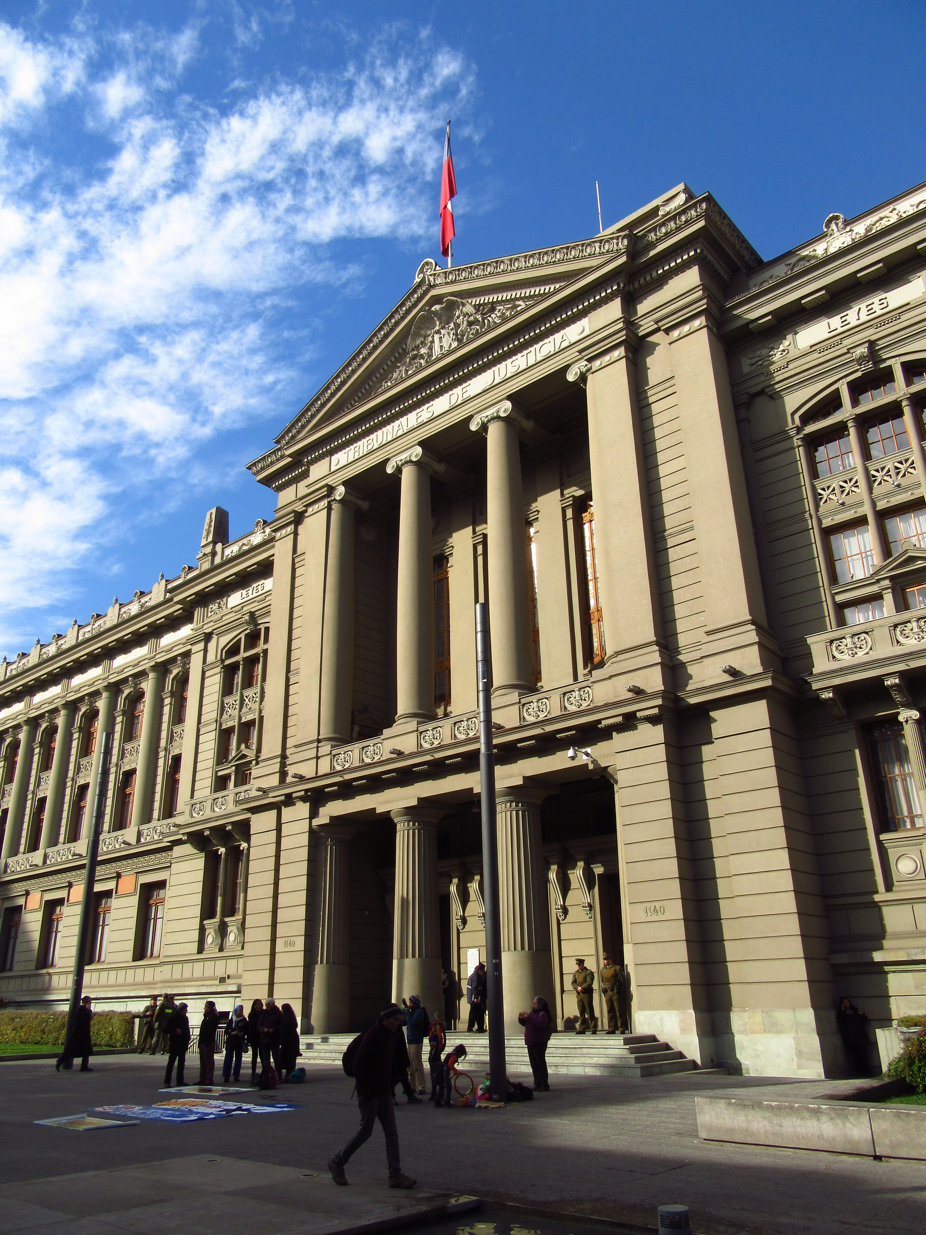 2017 in Santiago de Chile